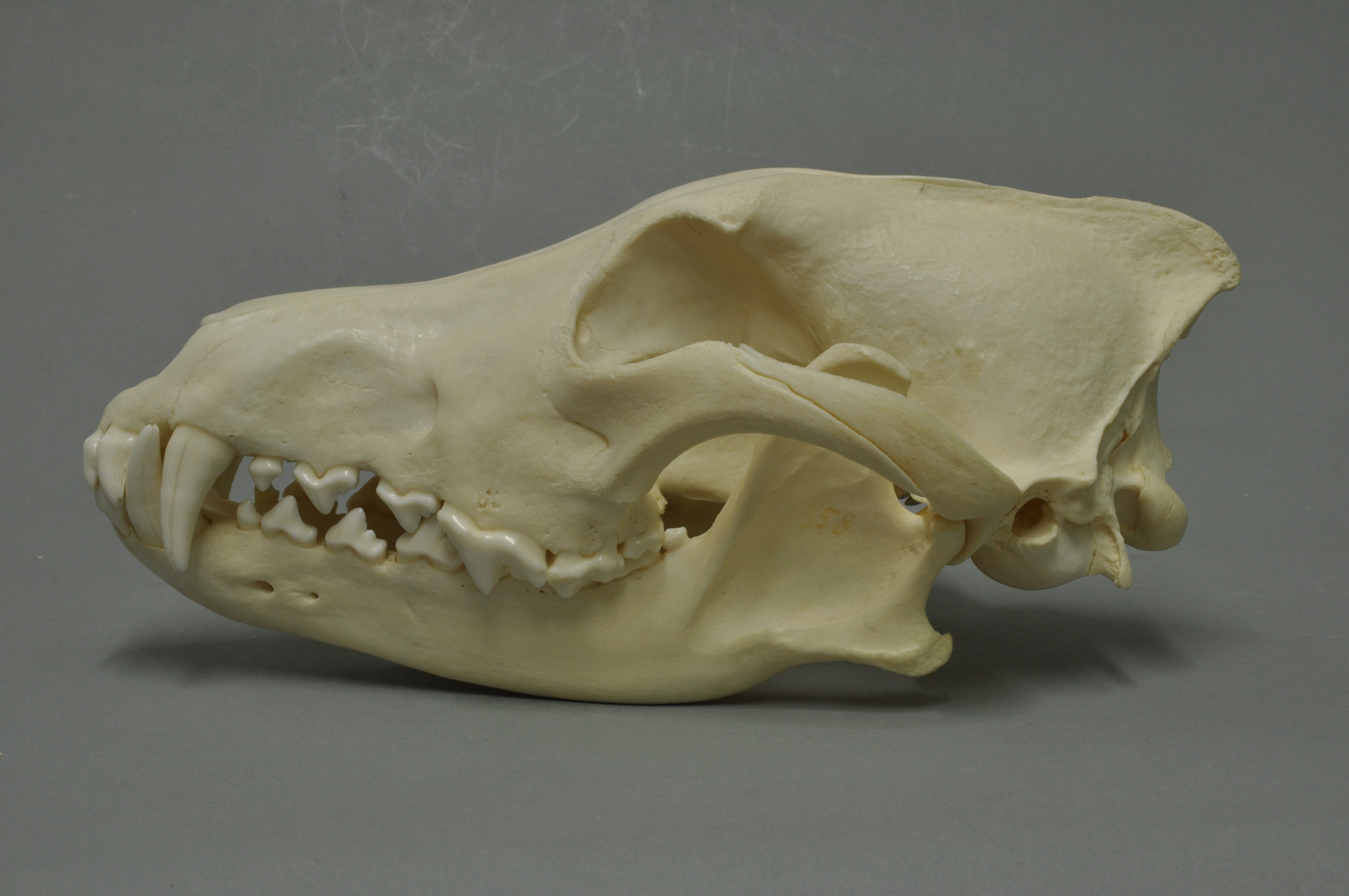 Gray wolf Canis lupus, skull, Coll. Museum Wiesbaden